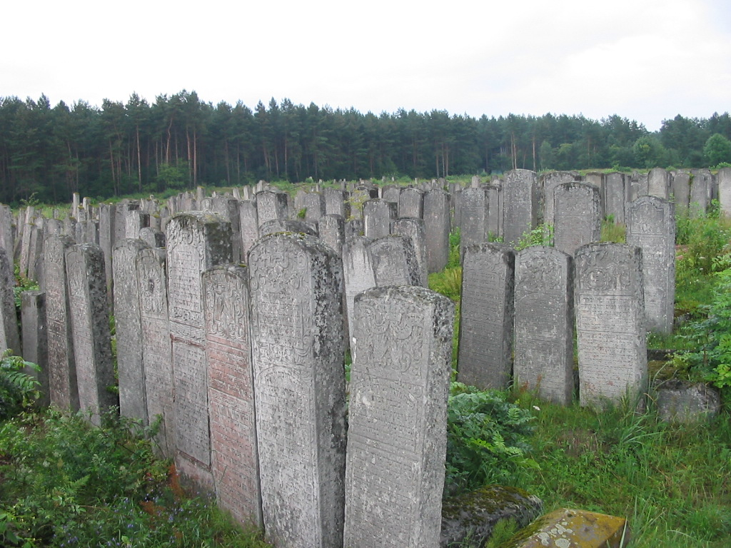 Jewish cemetery in Brody, western Ukraine